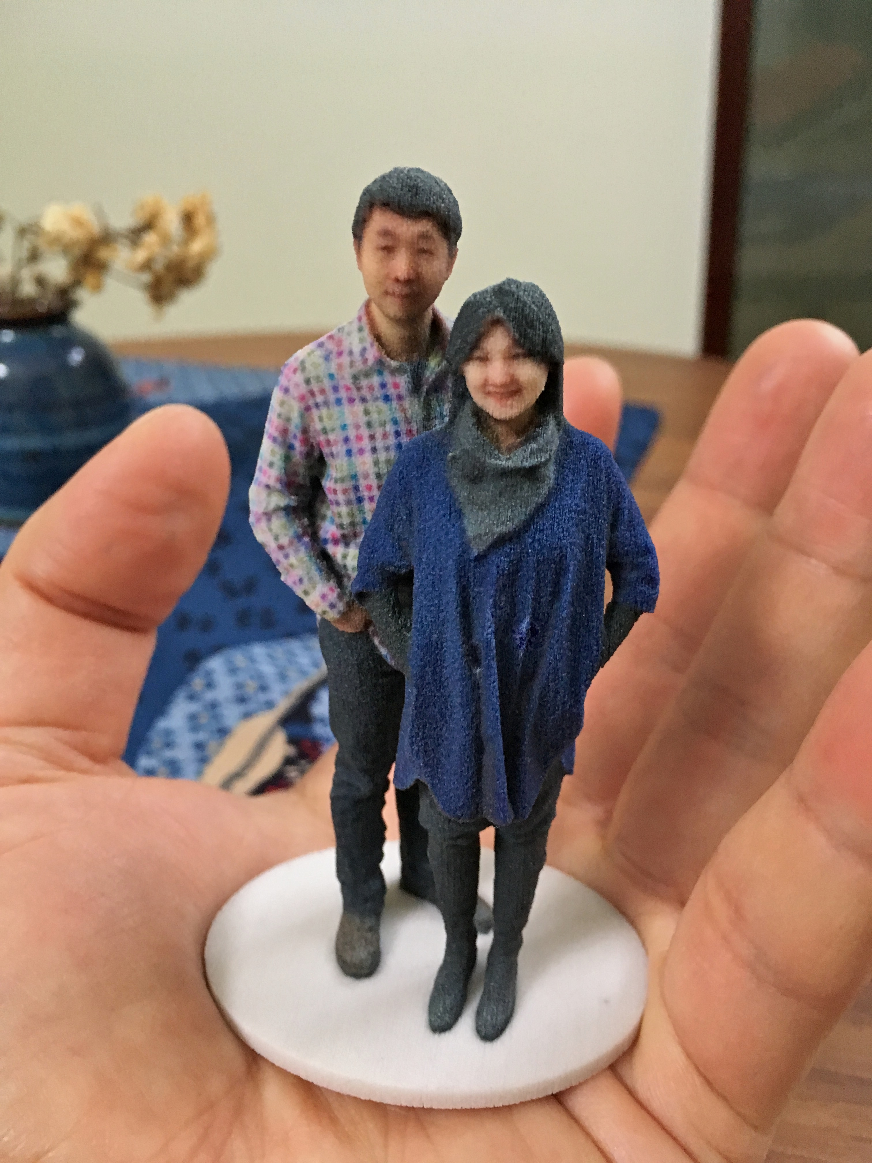 3D selfie in 1:20 scale printed by Shapeways, created by Madurodam miniature park from 2D pictures taken at its Fantasitron photo booth. The Full Color Sandstone printing technique is a form of Powder bed and inkjet head 3D printing. Two coats of clear acrylic varnish has been sprayed on in order to protect the gypsum-based model from water damages.